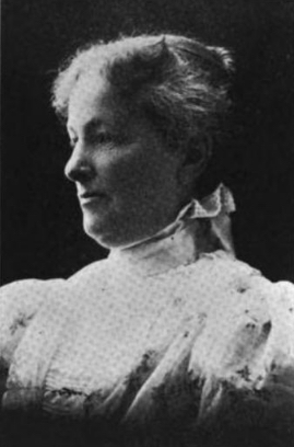 A white woman, in 3/4 profile, wearing a high-necked white dress with large sleeves.